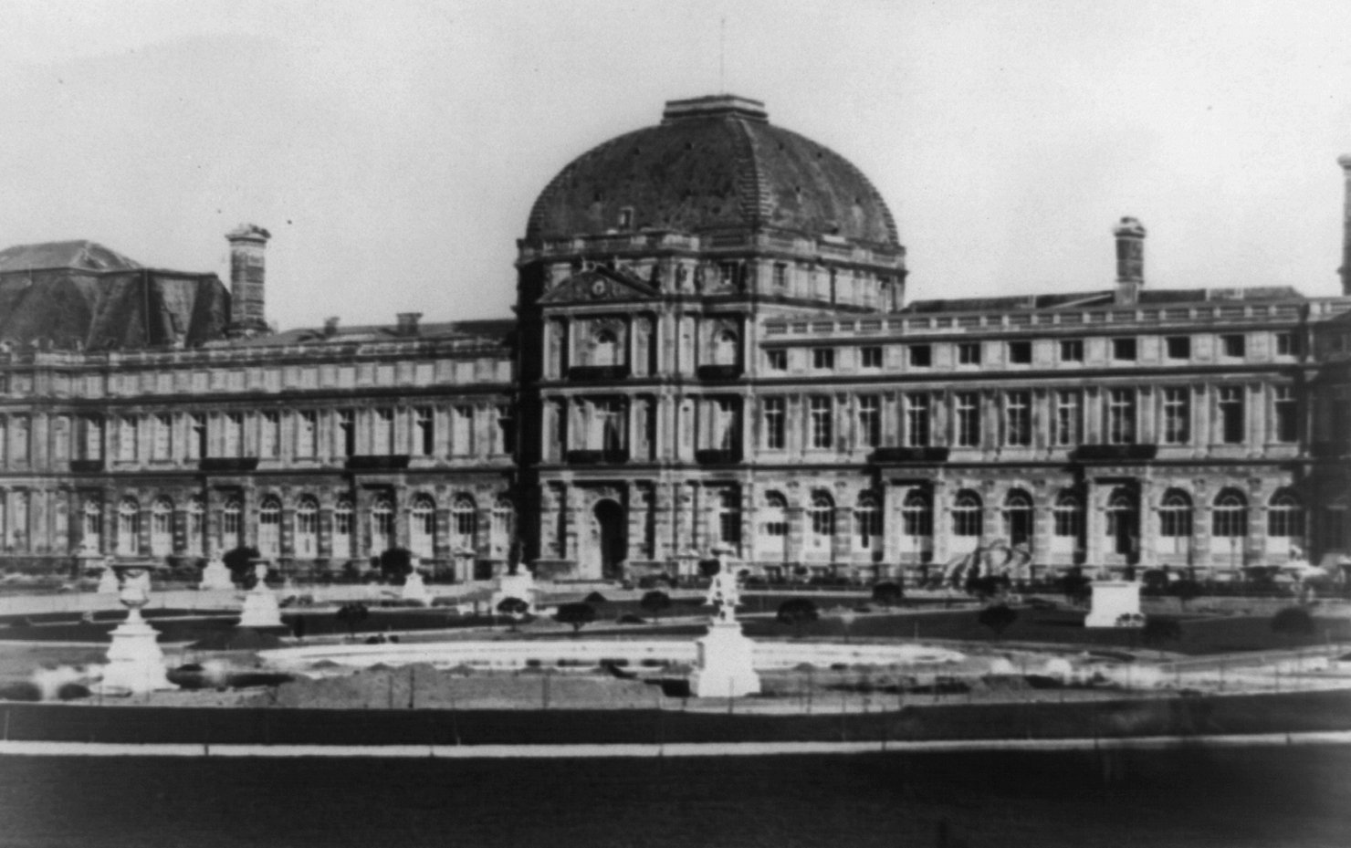 Paris. Tuileries.